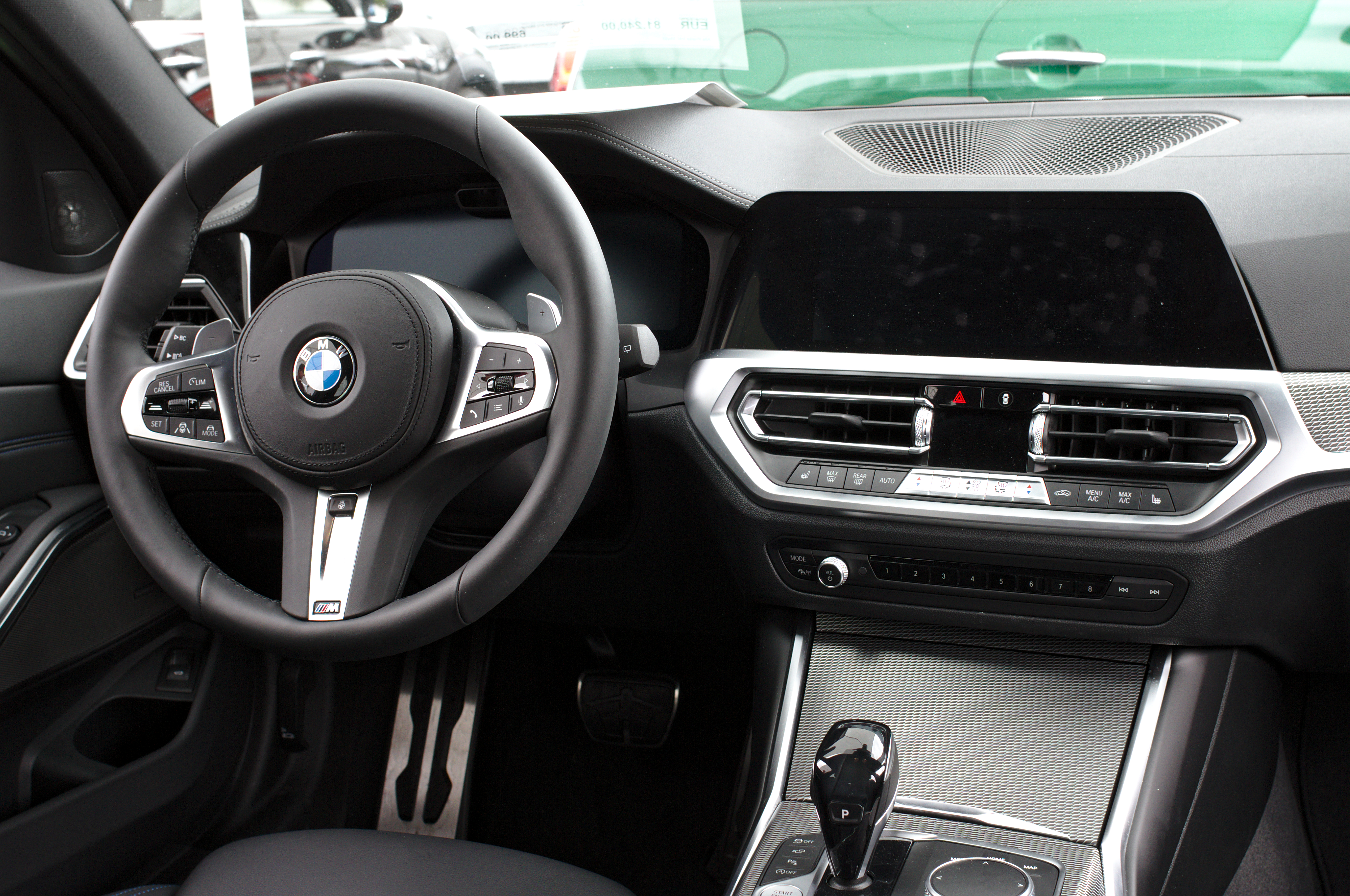 BMW_G21 at Leonberger Autoschau 2019